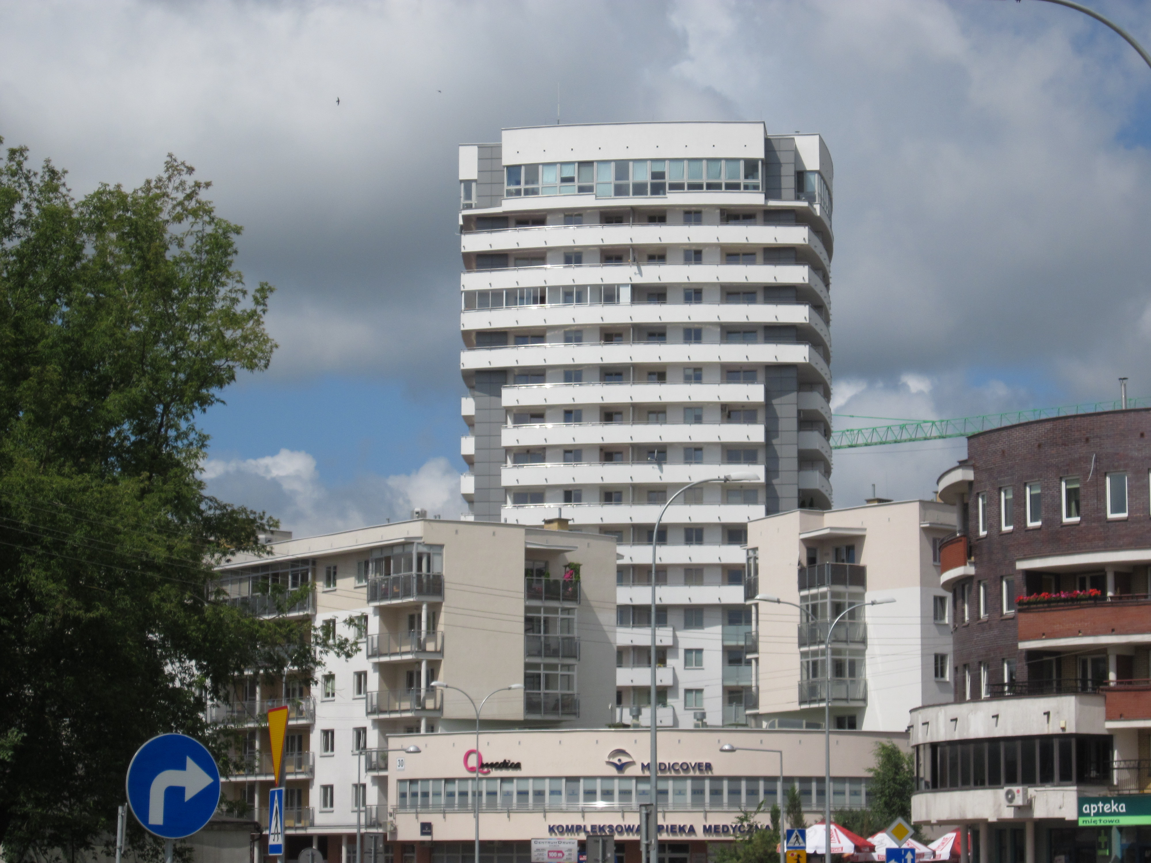 High-rise residential in Białystok, Waszyngtona 36 street.